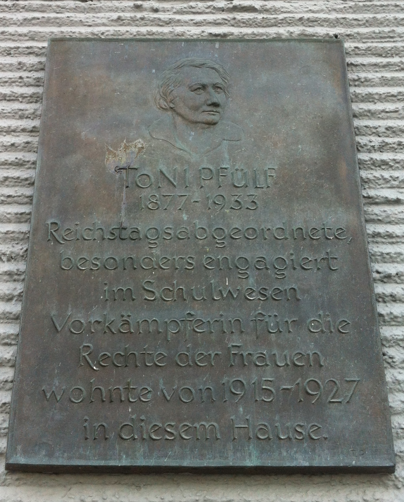 Plaque in Munich - Antonie Pfülf's house (Leopoldstraße 77 in Munich).